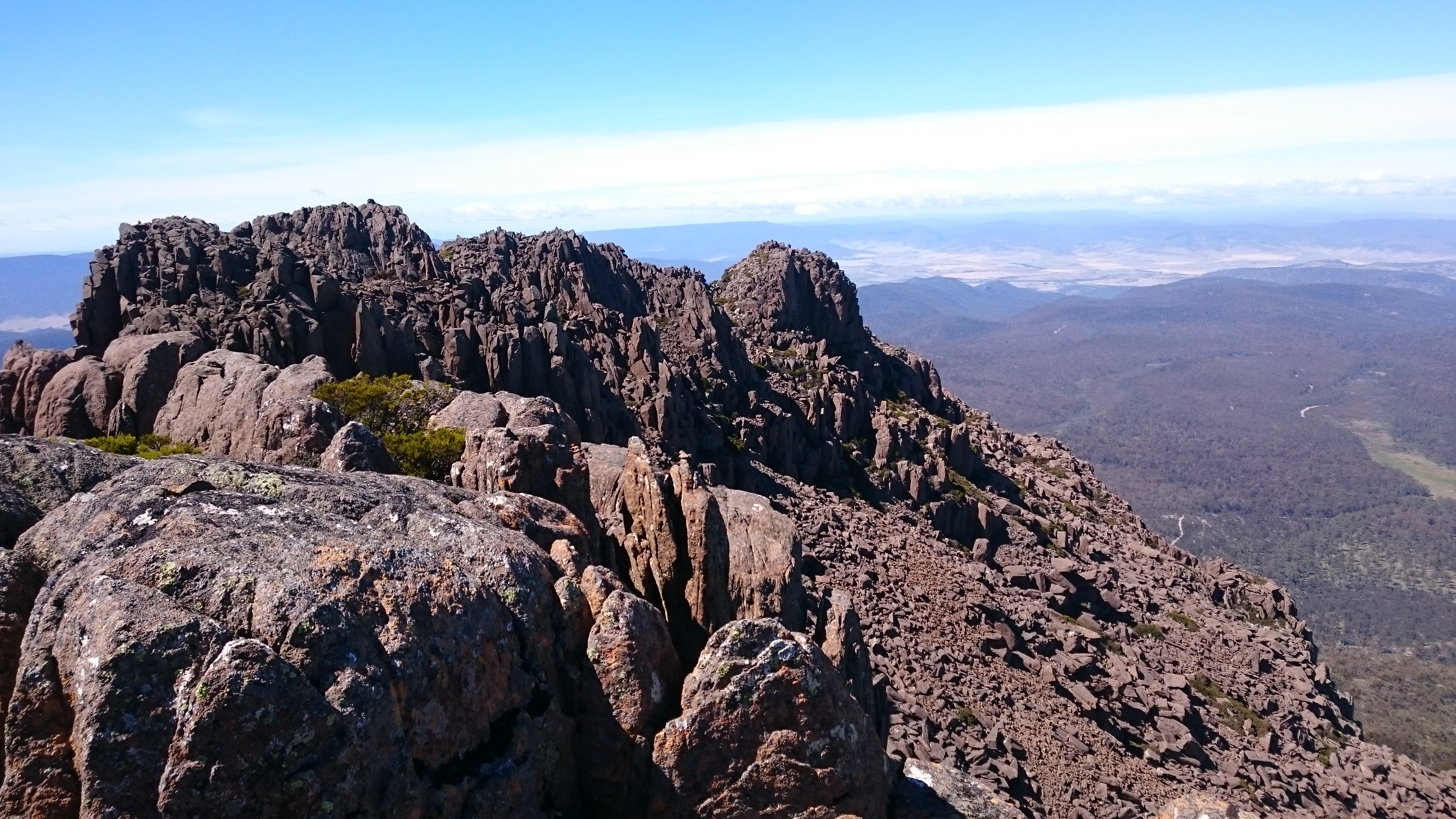 Stacks Bluff looking south from summit